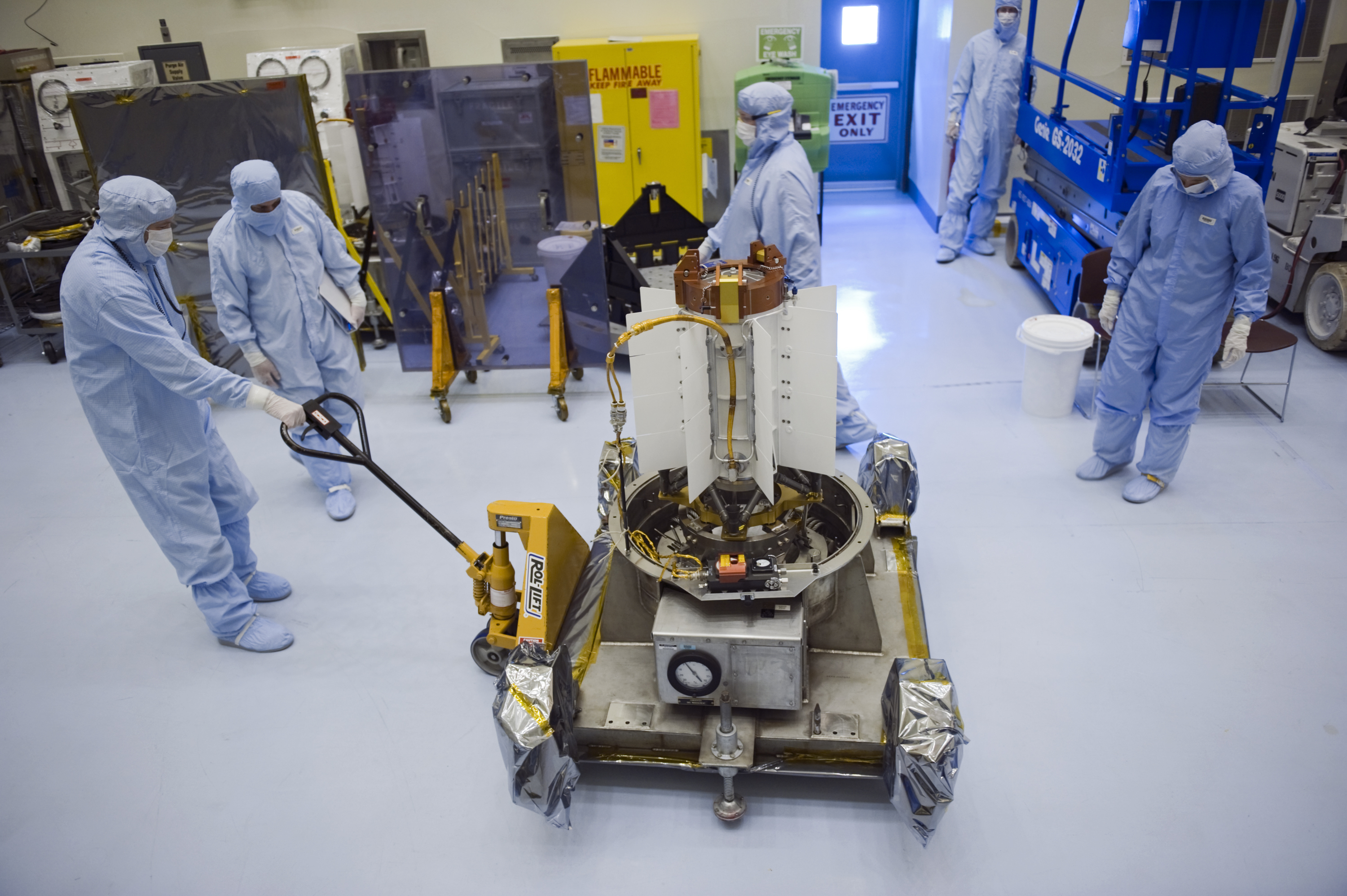 CAPE CANAVERAL, Fla. -- In the Payload Hazardous Servicing Facility at NASA's Kennedy Space Center in Florida, spacecraft technicians from NASA's Jet Propulsion Laboratory park the multi-mission radioisotope thermoelectric generator (MMRTG) for NASA's Mars Science Laboratory (MSL) mission on its support base in the airlock following the MMRTG fit check on the Curiosity rover in the high bay. The MMRTG will generate the power needed for the mission from the natural decay of plutonium-238, a non-weapons-grade form of the radioisotope. Heat given off by this natural decay will provide constant power through the day and night during all seasons. MSL's components include a car-sized rover, Curiosity, which has 10 science instruments designed to search for signs of life, including methane, and help determine if the gas is from a biological or geological source. Waste heat from the MMRTG will be circulated throughout the rover system to keep instruments, computers, mechanical devices and communications systems within their operating temperature ranges. Launch of MSL aboard a United Launch Alliance Atlas V rocket is targeted for Nov. 25 from Space Launch Complex 41 on Cape Canaveral Air Force Station. For more information, visit